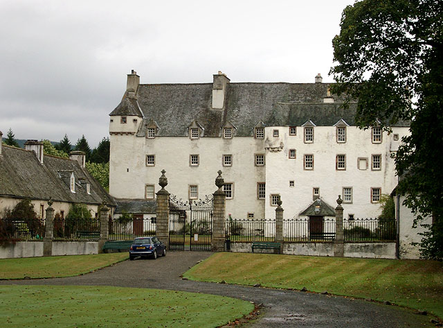 Traquair House. Traquair House was originally a castle owned by the kings of Scotland. It later became the home of the Earls of Traquair and is still lived in by their descendants, the Maxwell Stuart family. It is well known as the oldest inhabited and most romantic house in Scotland.